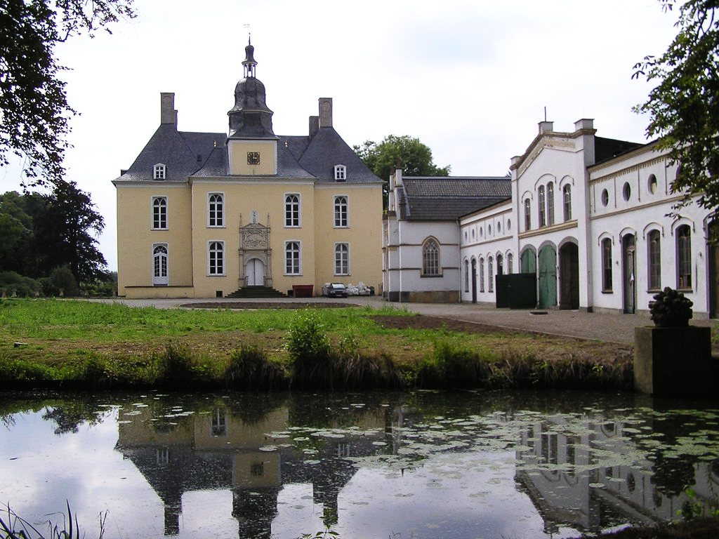 Castle Schloss Gartrop near Hünxe, Germany